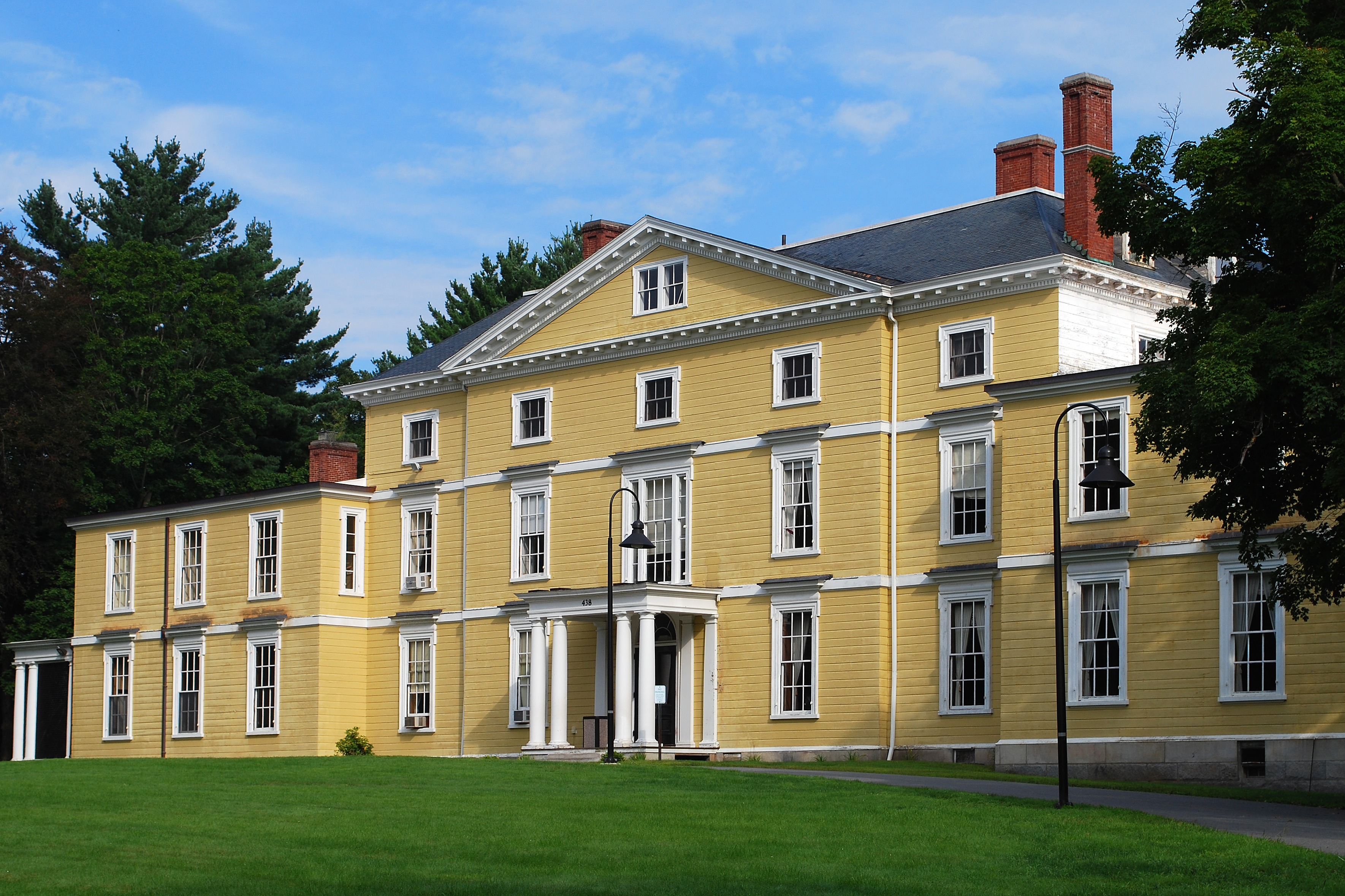 The Thayer Music Building, part of Atlantic Union College.